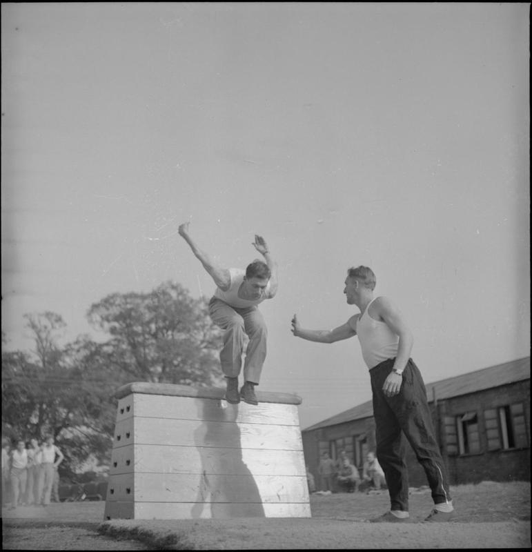 First US Army Rehabilitation Centre- Recuperation and Training at 8th Convalescent Hospital, Stoneleigh Park, Kenilworth, Warwickshire, UK, 1943 Sergeant Donald Weaver (of Beach Creek Avenue, Millhall, Pennsylvania) leaps over the vaulting horse during a Physical Training session at 8th Convalescent Hospital at Stoneleigh Park. A PT instructor is prepared to catch him if he stumbles. Sergeant Weaver is recovering from a knee operation. All gym equipment has been supplied by Britain.